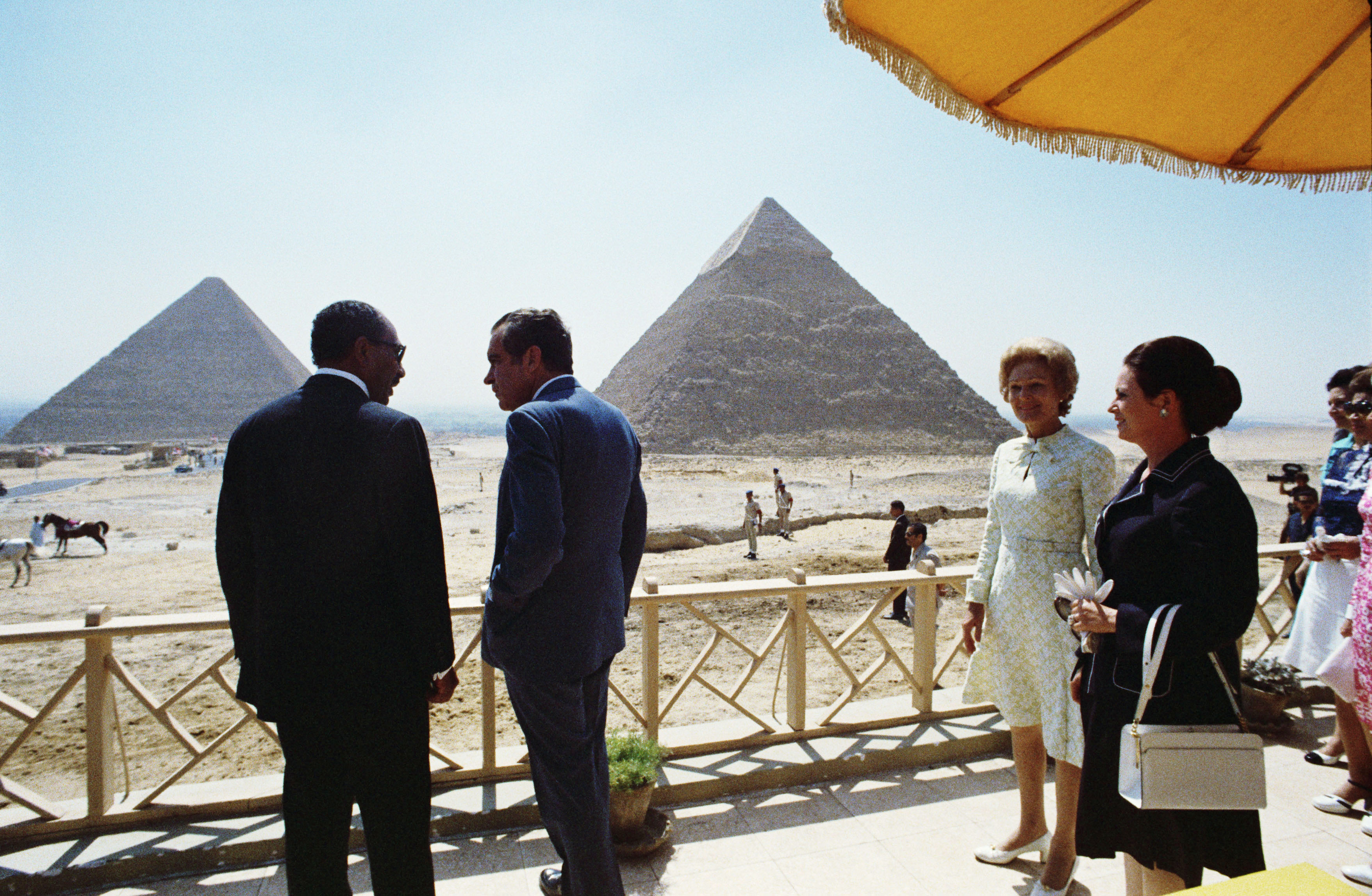 Presidents Sadat of Egypt and Nixon of the United States confer as their wives look on.